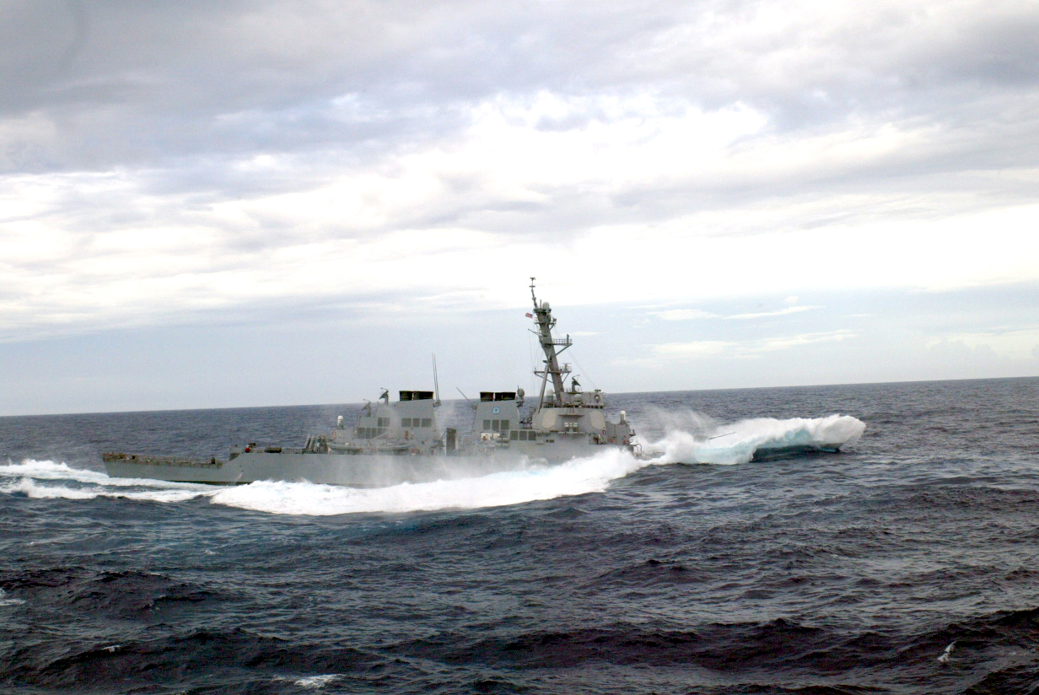 Atlantic Ocean (Dec. 3, 2003) -- The guided missile destroyer USS Cole (DDG-67) encounters heavy seas while transiting across the Atlantic. This was USS Cole’s first deployment since the October 12, 2000, terrorist attack in Yemen. The ship was repaired by the Navy’s Supervisor of Shipbuilding, Repair and Conversion (SUPSHIP), Ingall’s Shipyard, Pascagoula, Miss., for an estimated $250 million. Cole was part of a three ship Surface Strike Group (SSG) assigned to USS Enterprise (CVN-65) Carrier Strike Group (CSG).